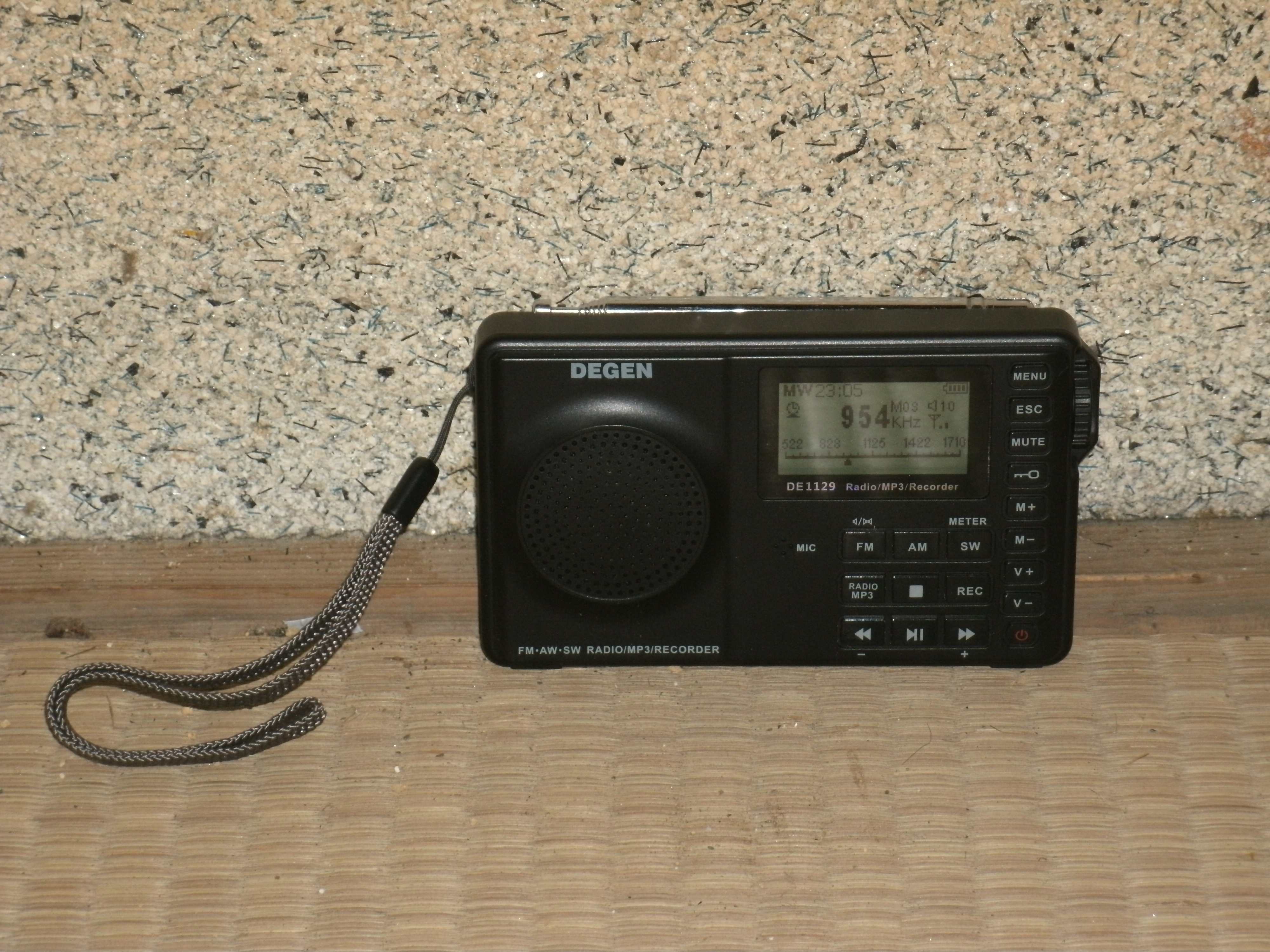 DEGEN Radio DE-1129